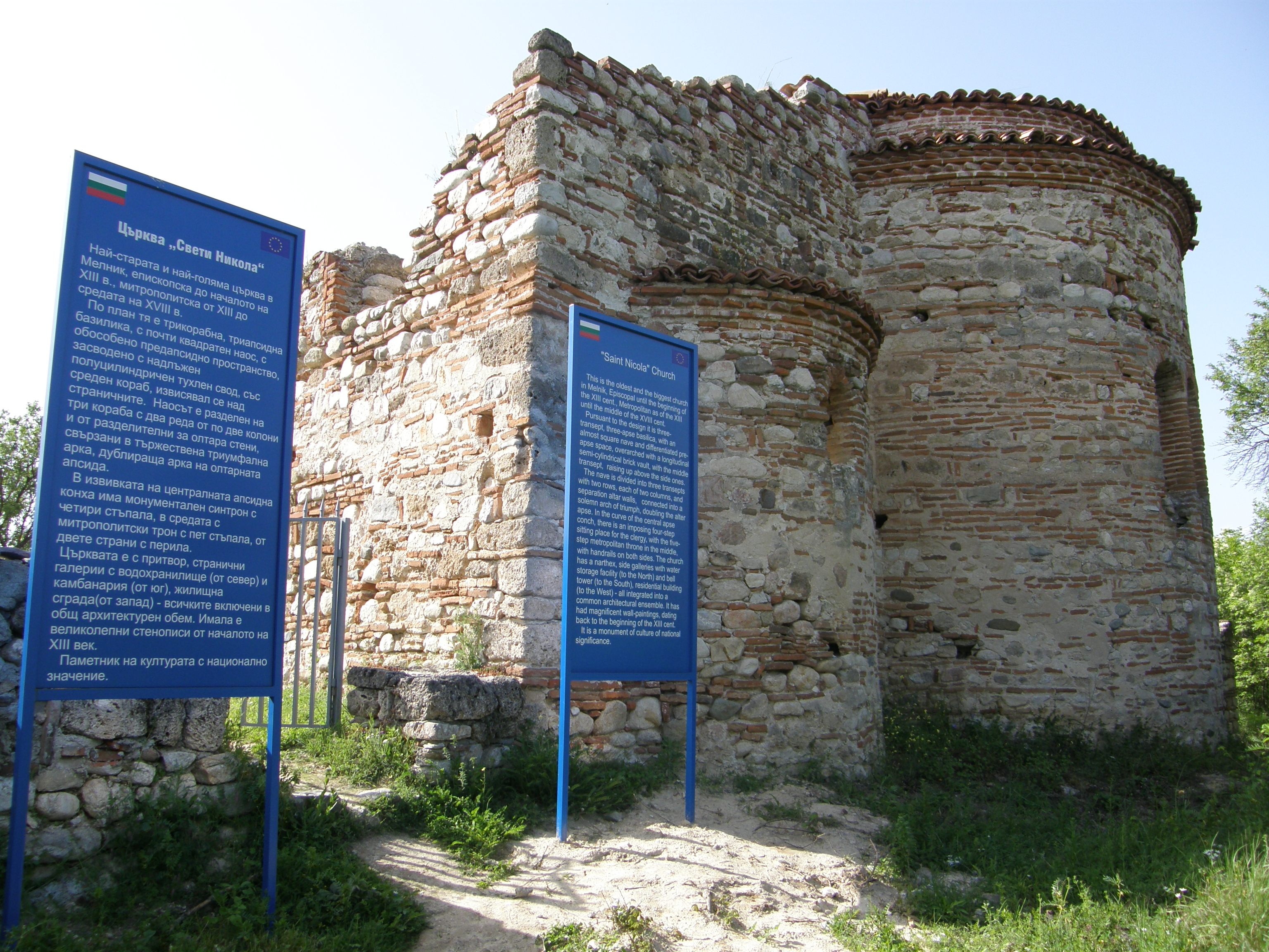 The ruins of "Saint Nicola"church at Melnik, Bulgaria. "Saint Nicola" church at Melnik, Bulgaria...